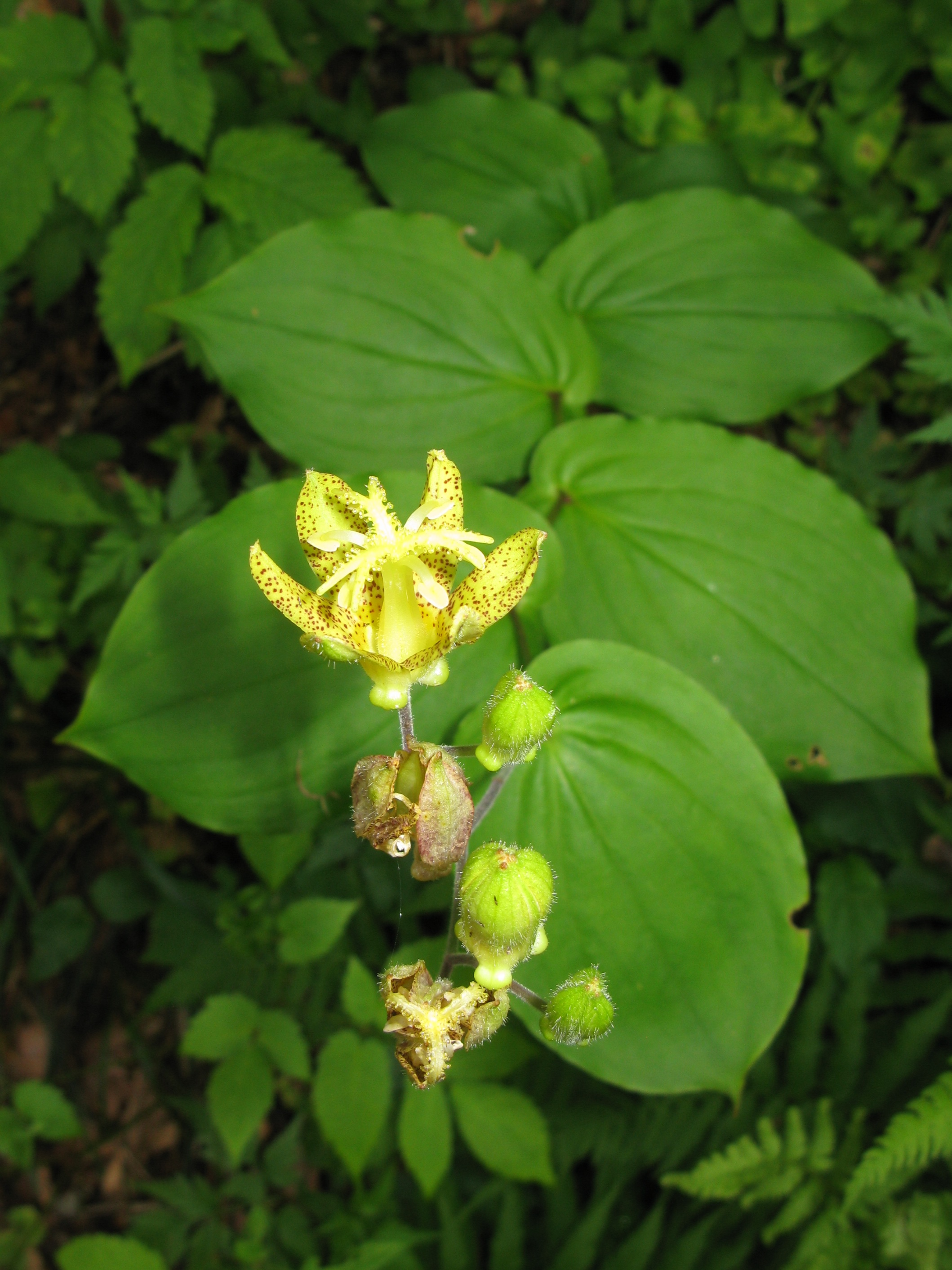 Tricyrtis latifolia, Aizu area, Fukushima pref., Japan